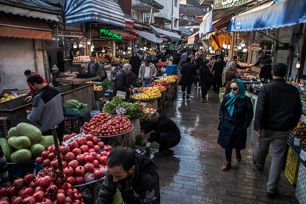 یکشنبه بازار رودسر در یک روز بارانی